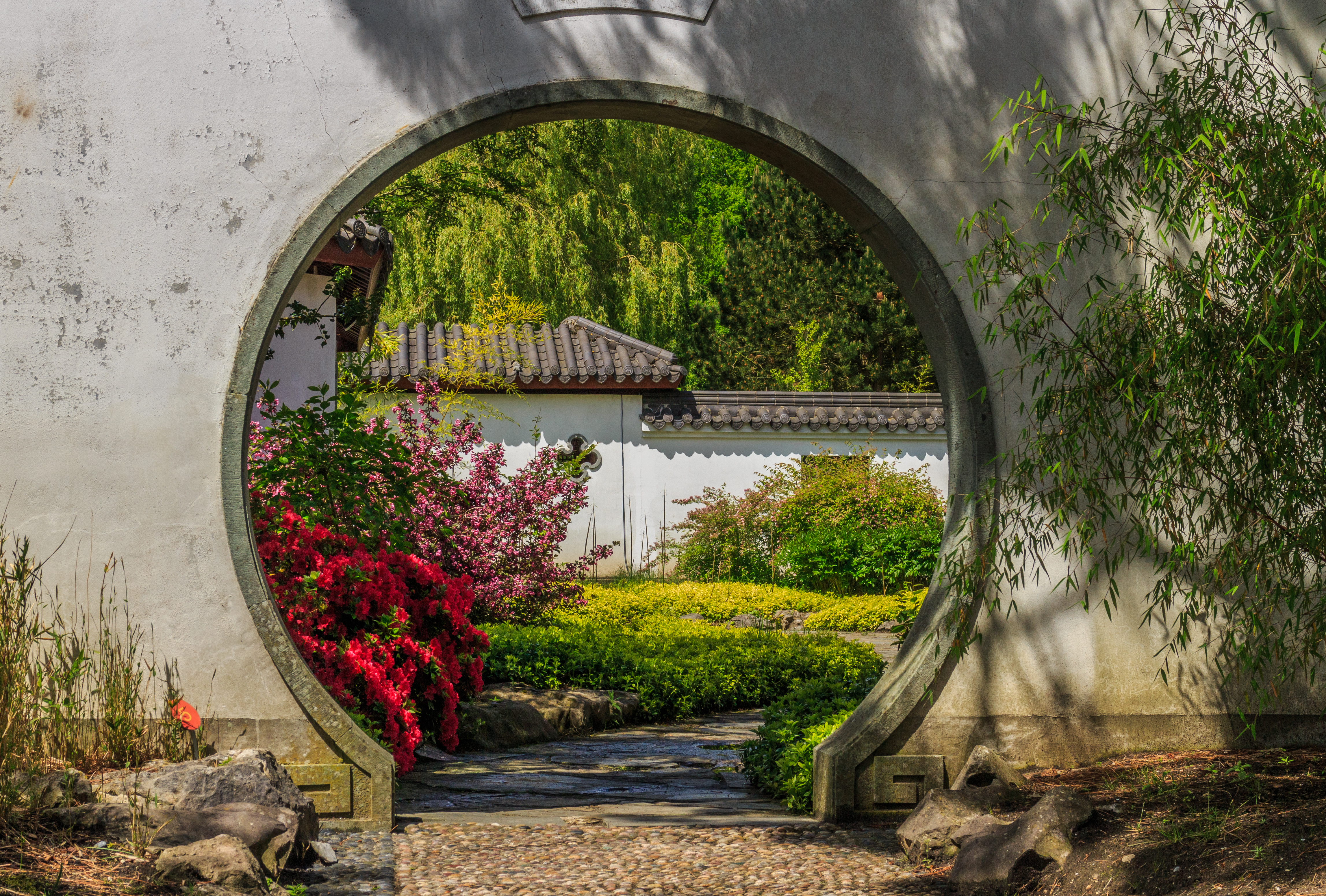 Passage in wall known as Moon gate. Location, Chinese garden, the Hidden Realm of Ming. Location: Hortus Haren, one of the oldest botanical gardens in the Netherlands.